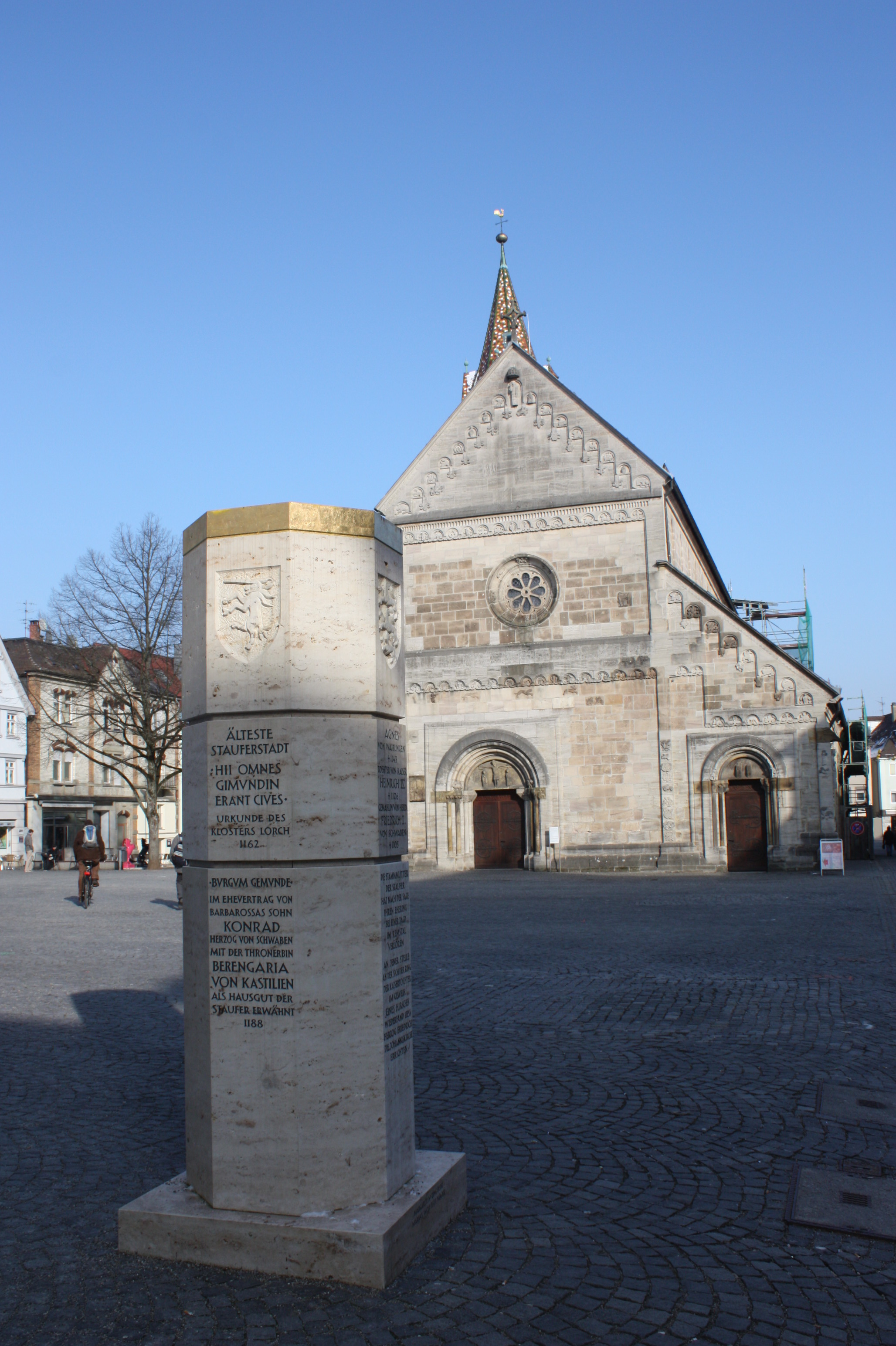 Johanniskirche Schwaebisch Gmuend with Stauferstele (Johannisplatz)